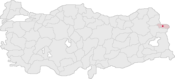 Shows the location of the Iğdır province in Turkey